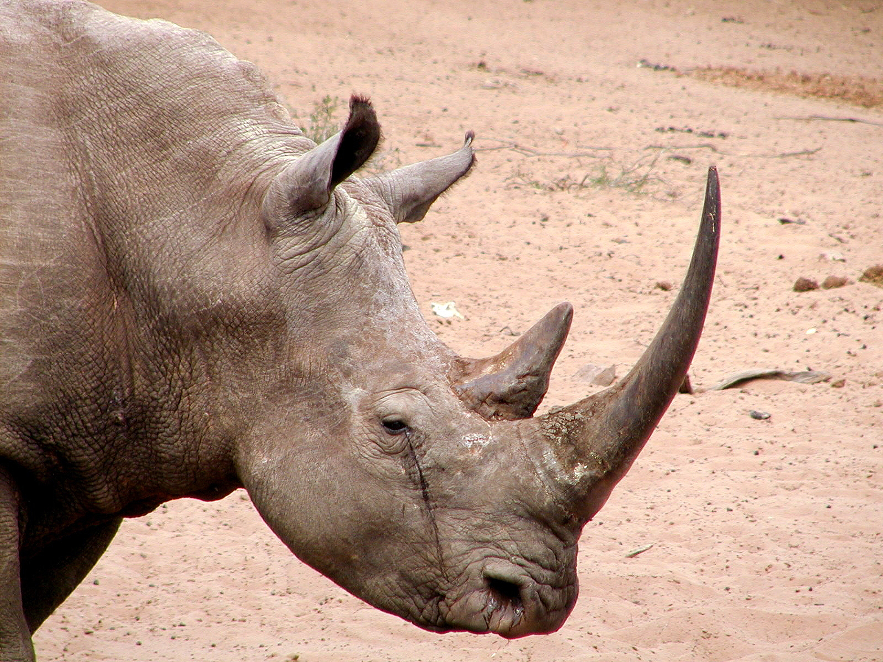 Side profile head shot of white rhino